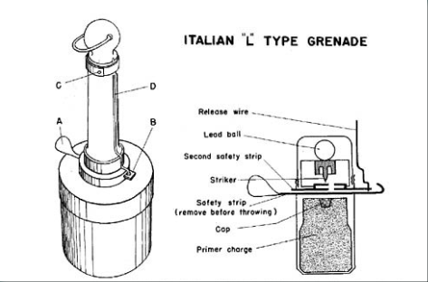 WWII era italian anti-tank grenade